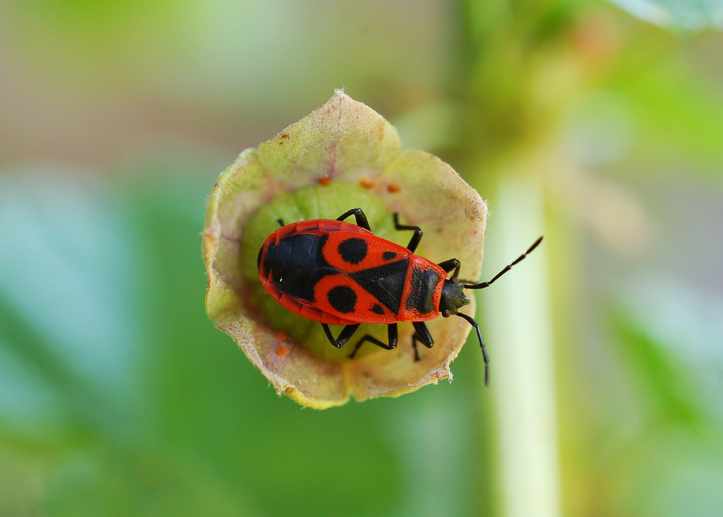 Firebug on fruit of Malva sylvestris